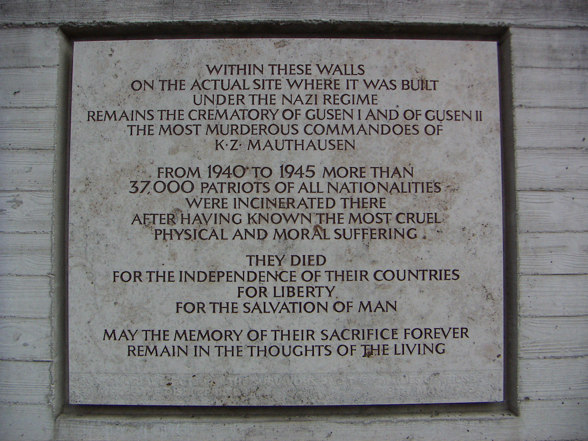 The English language commemorative plaque in the "Court of Honor" of Memorial Crematorium KZ Gusen